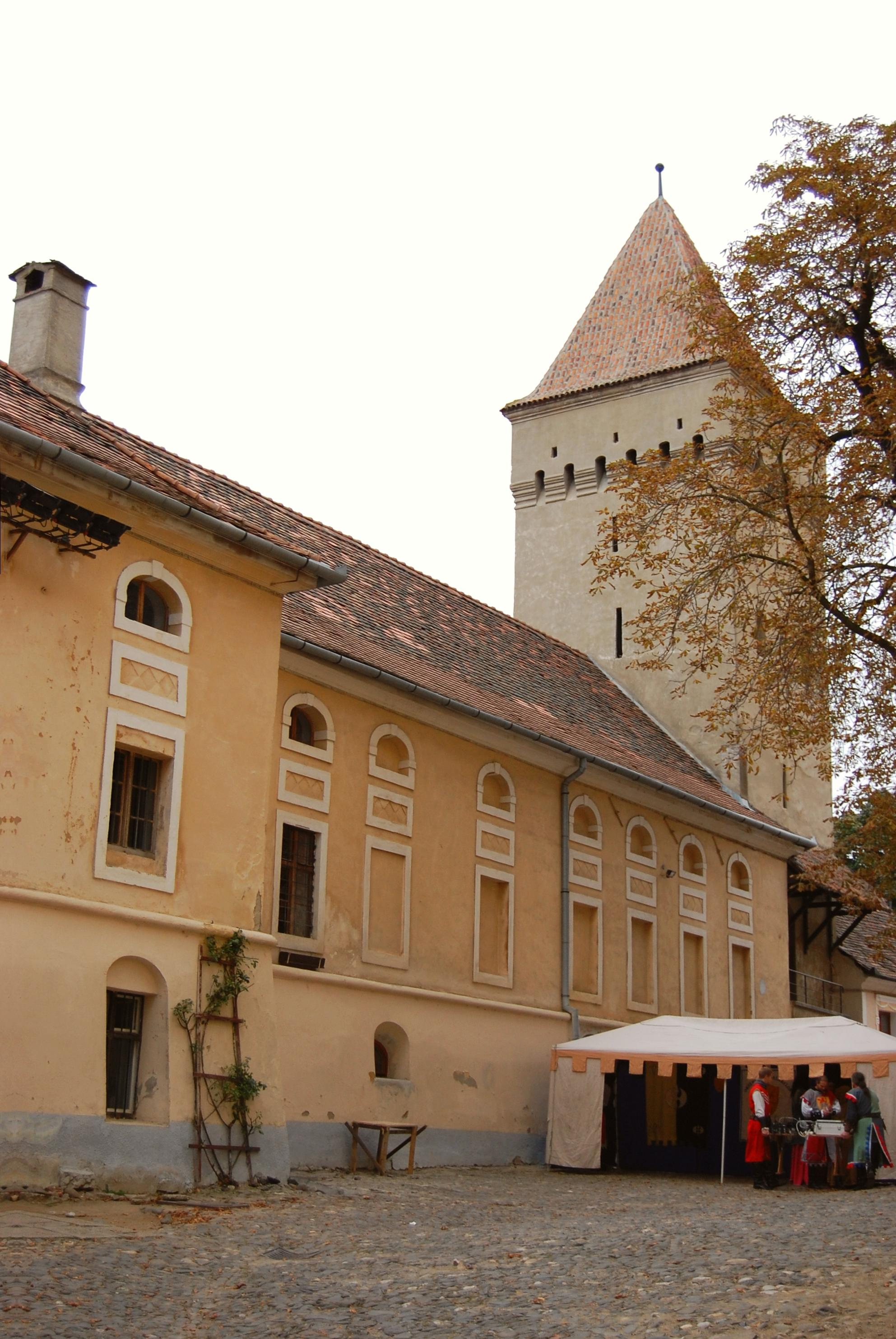 school and old town hall in the medieval castle of Mediaș/Mediasch/Medgyes, Romania